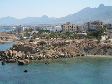 Kyrenia, Northern Cyprus. Created by (WT-shared) Heavenl1y 09:18, 2 January 2007 (EST). Image taken 12th September 2006.